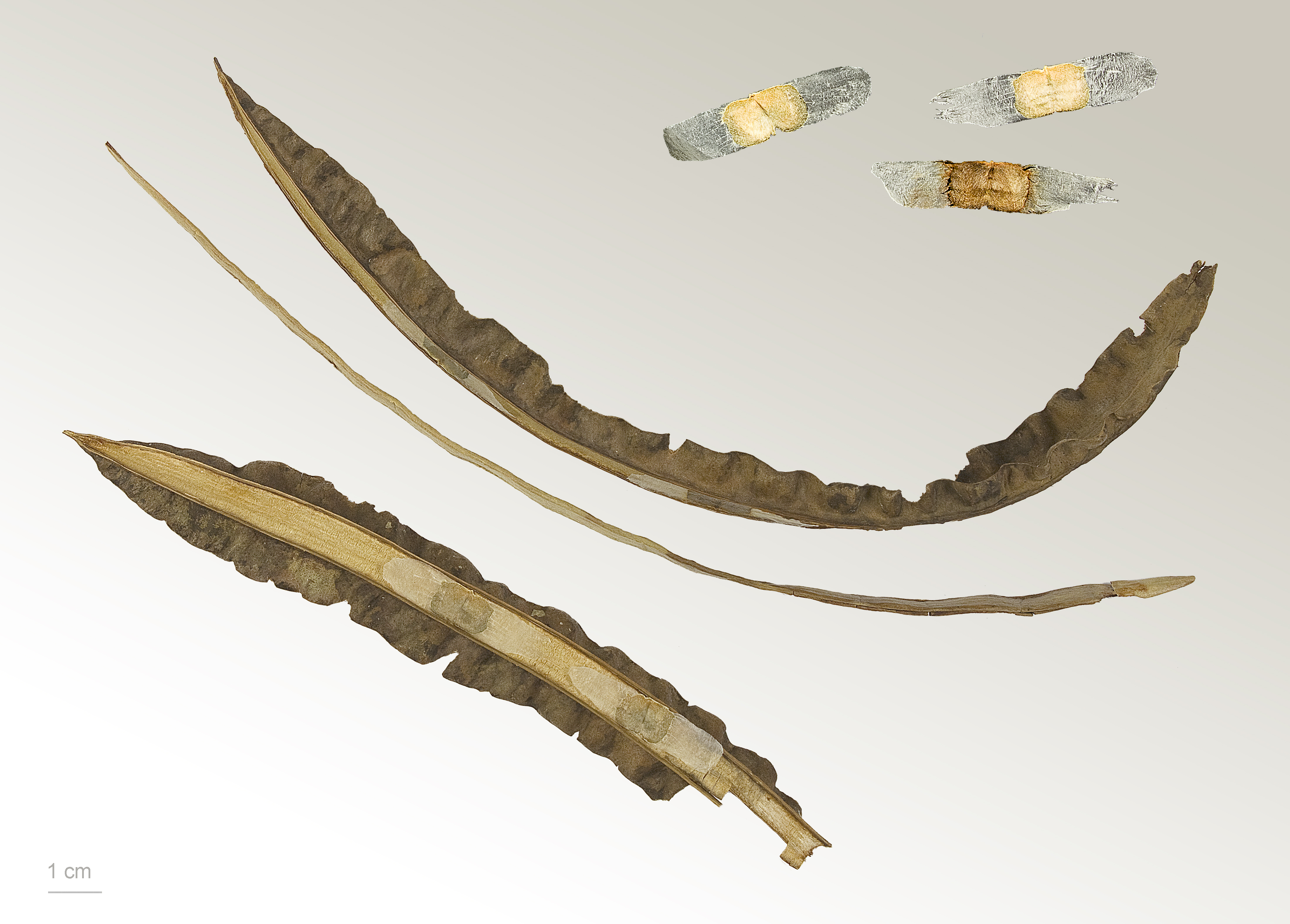 Tabebuia sp., fruits and seeds